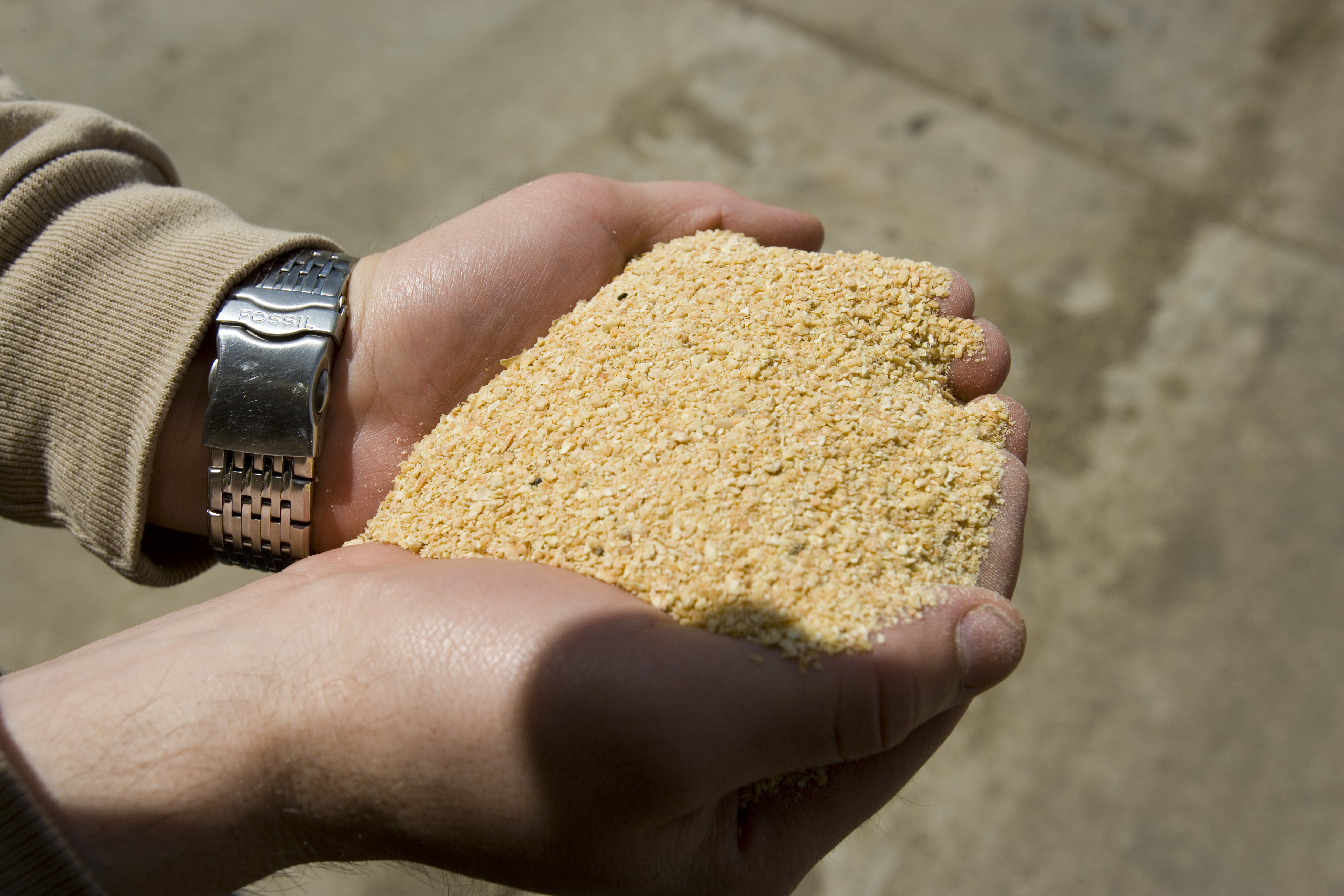 If used, credit must be given to the United Soybean Board or the Soybean Checkoff.